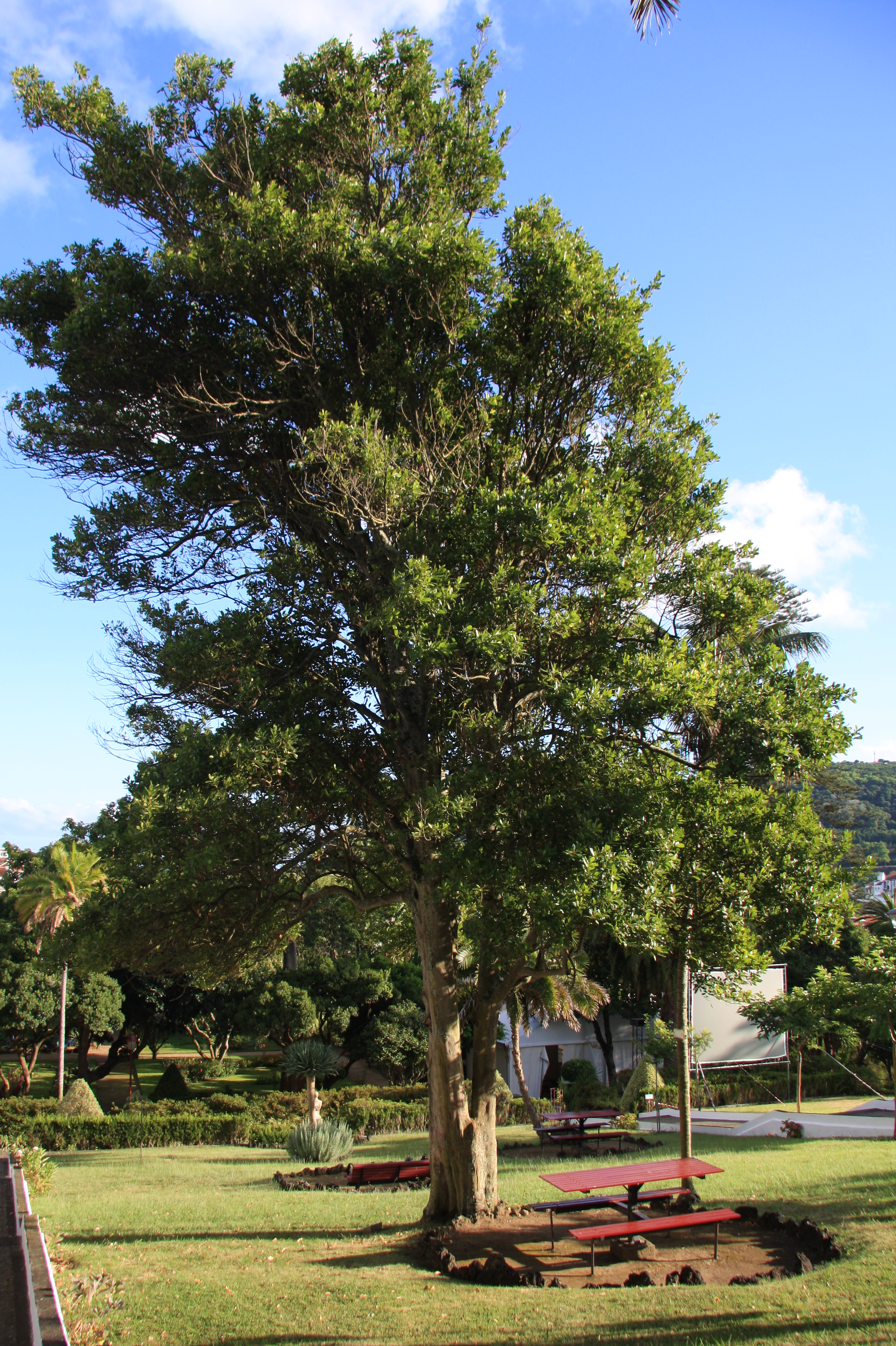 A Bay Laurel in the Park "Jardim Duque de Terceira" in Angra do Heroísmo